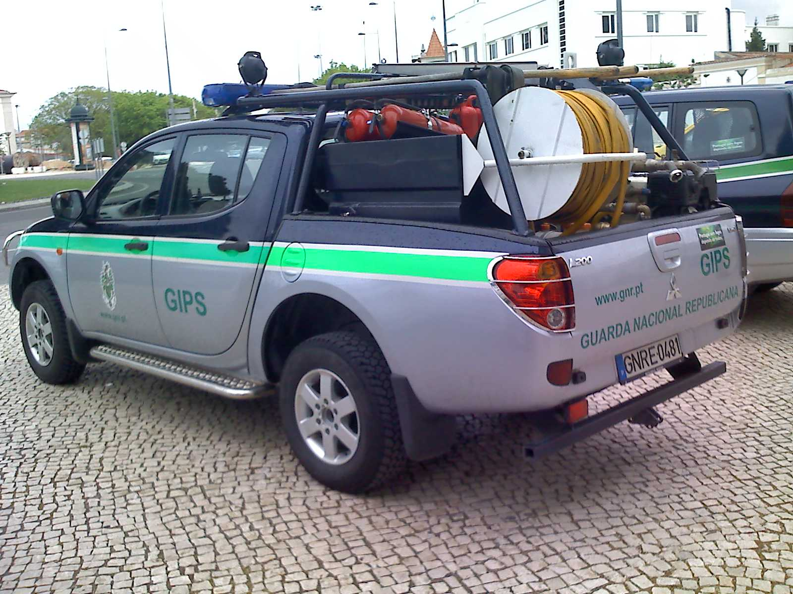 Portuguese National Republican Guard GIPS fire rescue vehicle